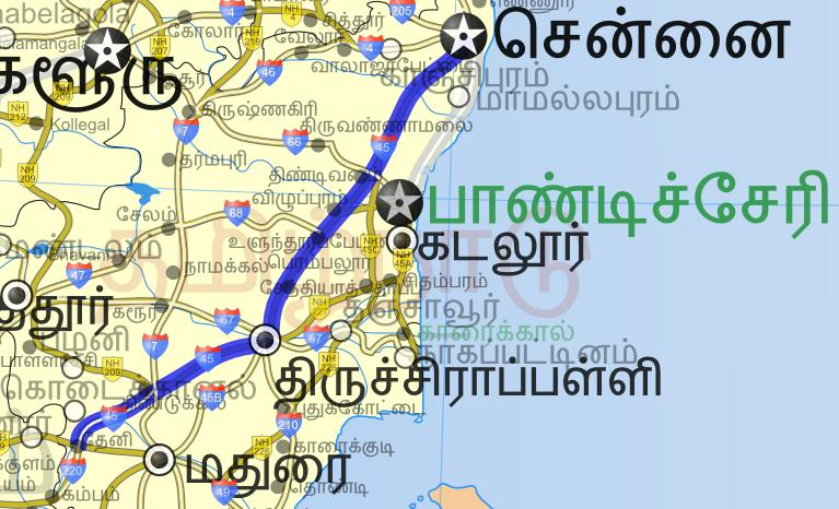 localised version from